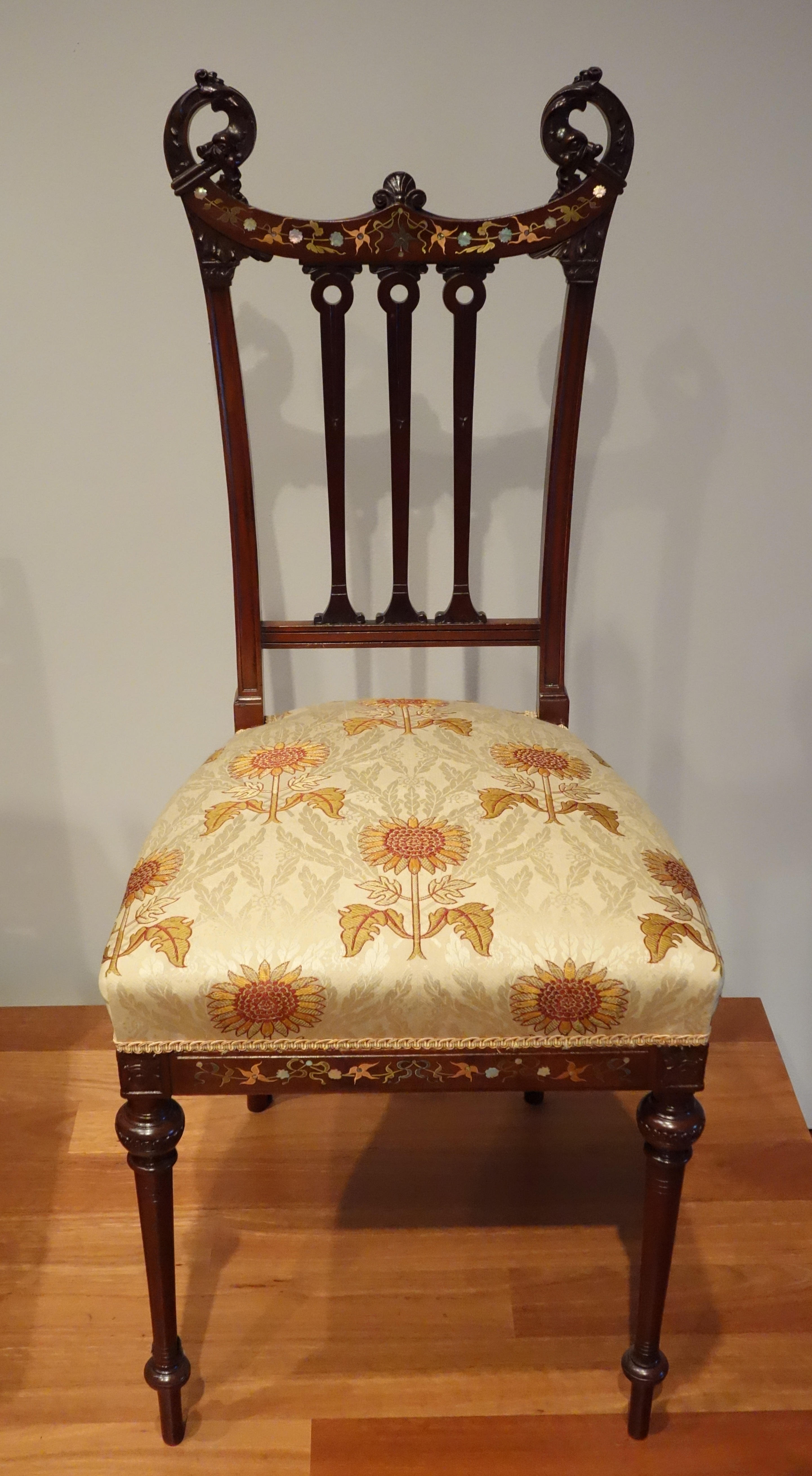 Exhibit in the De Young Museum, San Francisco, California, USA. This artwork is in the public domain because the artist died more than 70 years ago.